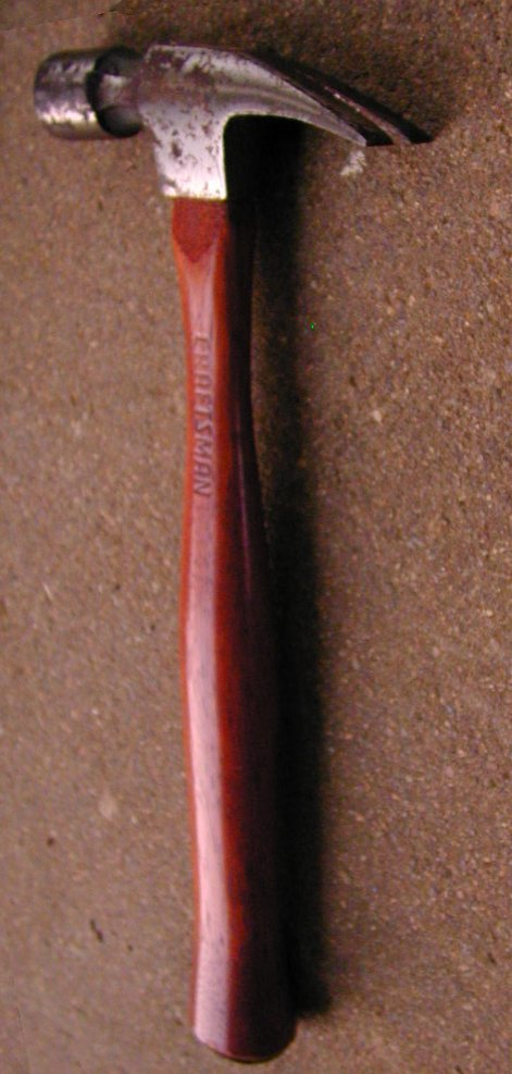 A hammer, positioned vertically from top to bottom. This is a derivative work of Image:Hammer.jpg, copyright Michael Jastremski. Changes: the image has been rotated to make the hammer vertical, and the background extended to fit the frame.